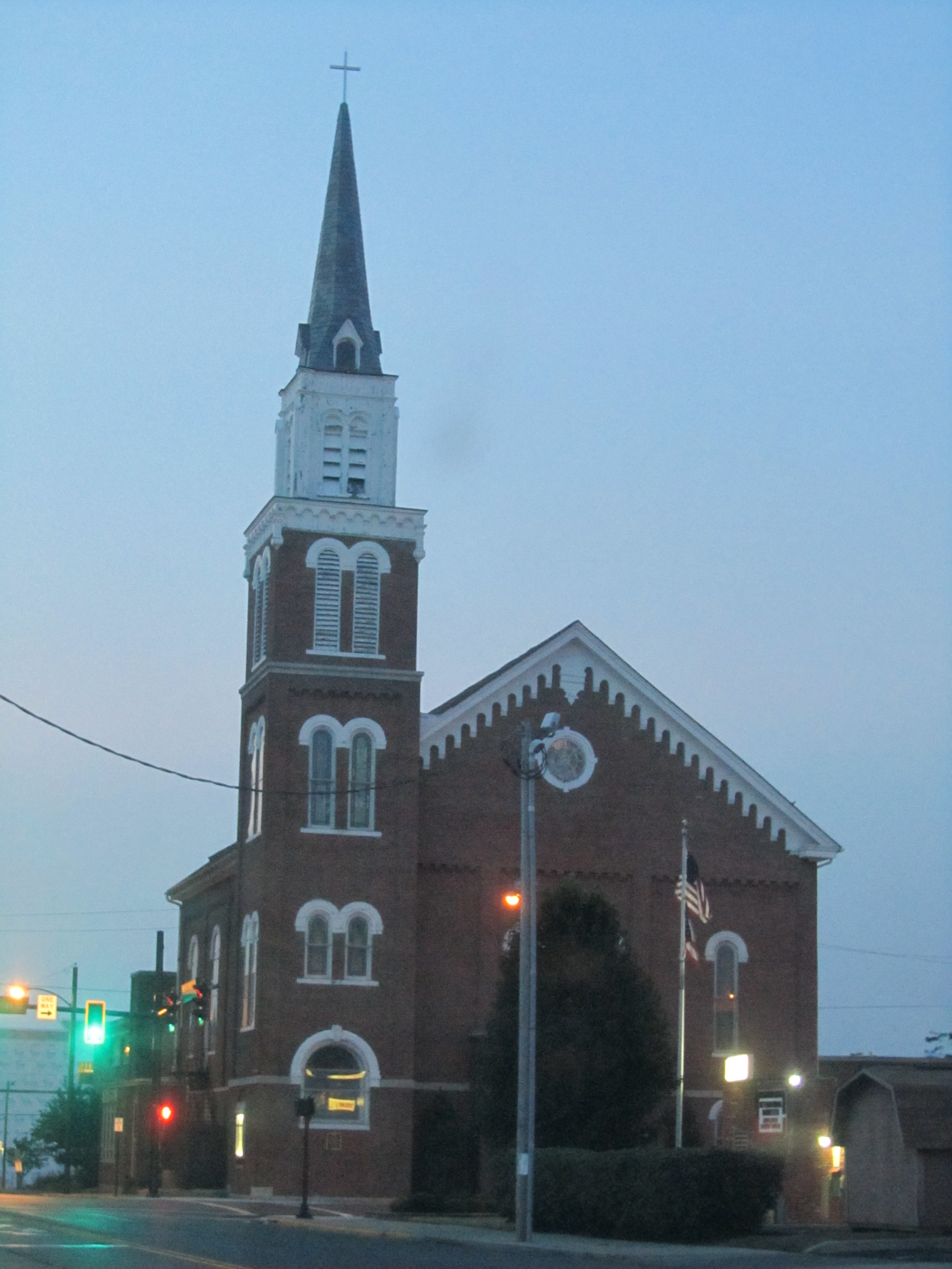 Front view of First Lutheran Church (Springfield, Ohio)